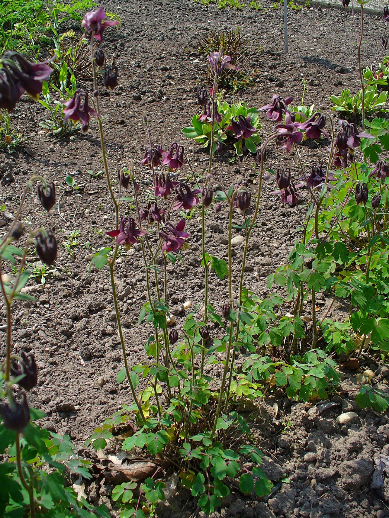 Aquilegia atrata, Ranunculaceae, Dark Columbine, habitus; Botanical Garden KIT, Karlsruhe, Germany.